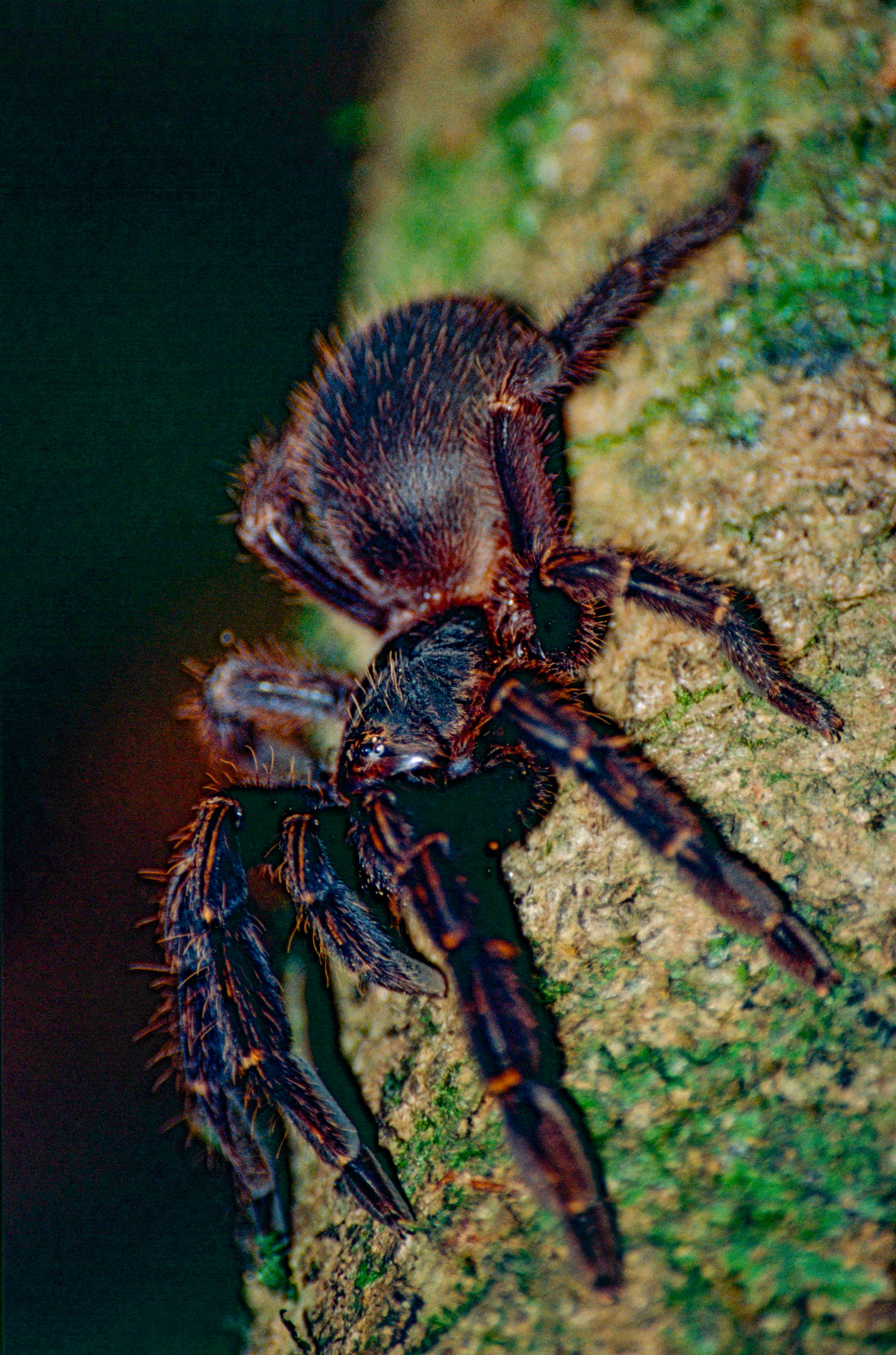 Saül, Guyane, FRANCE Scanned Slide from 2000